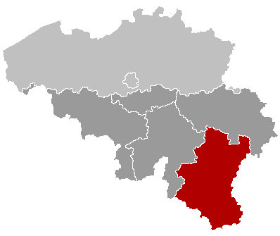 map made by User:Morwen put under the GNU Free Documentation License. Walon: map del Beldjike avou l' province do Lussimbork e rodje coleur.